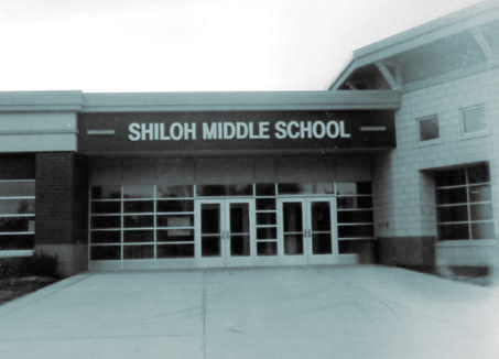 This is a picture of the Shiloh Middle School in Shiloh, IL